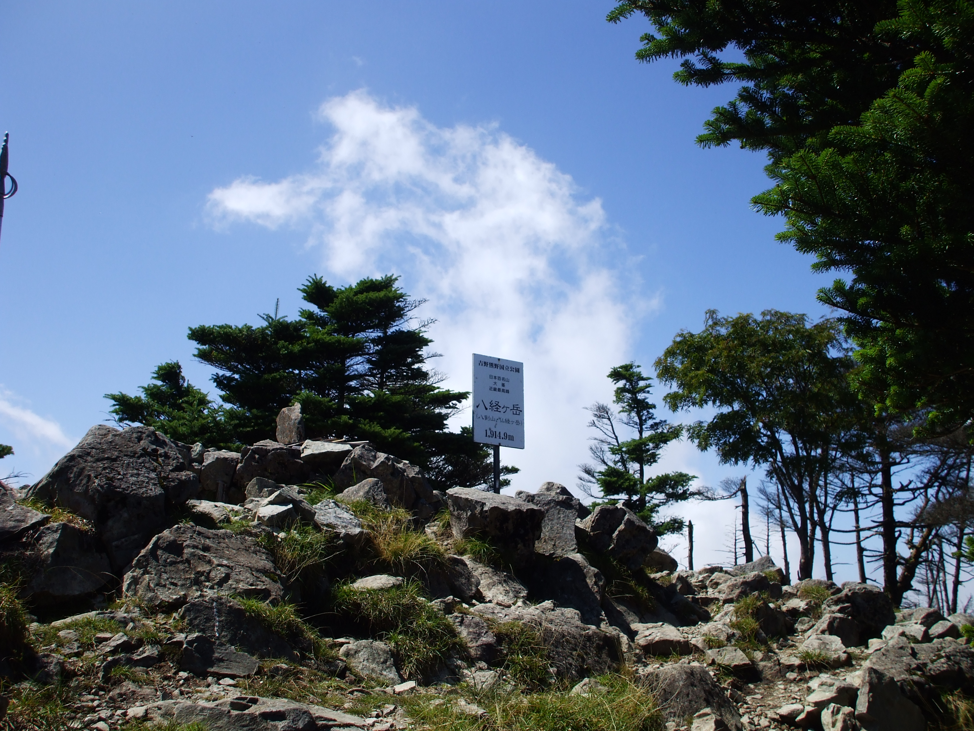 Top of Mount Hakkyo, of Omine Mountains, Nara, Honshu, Japan.